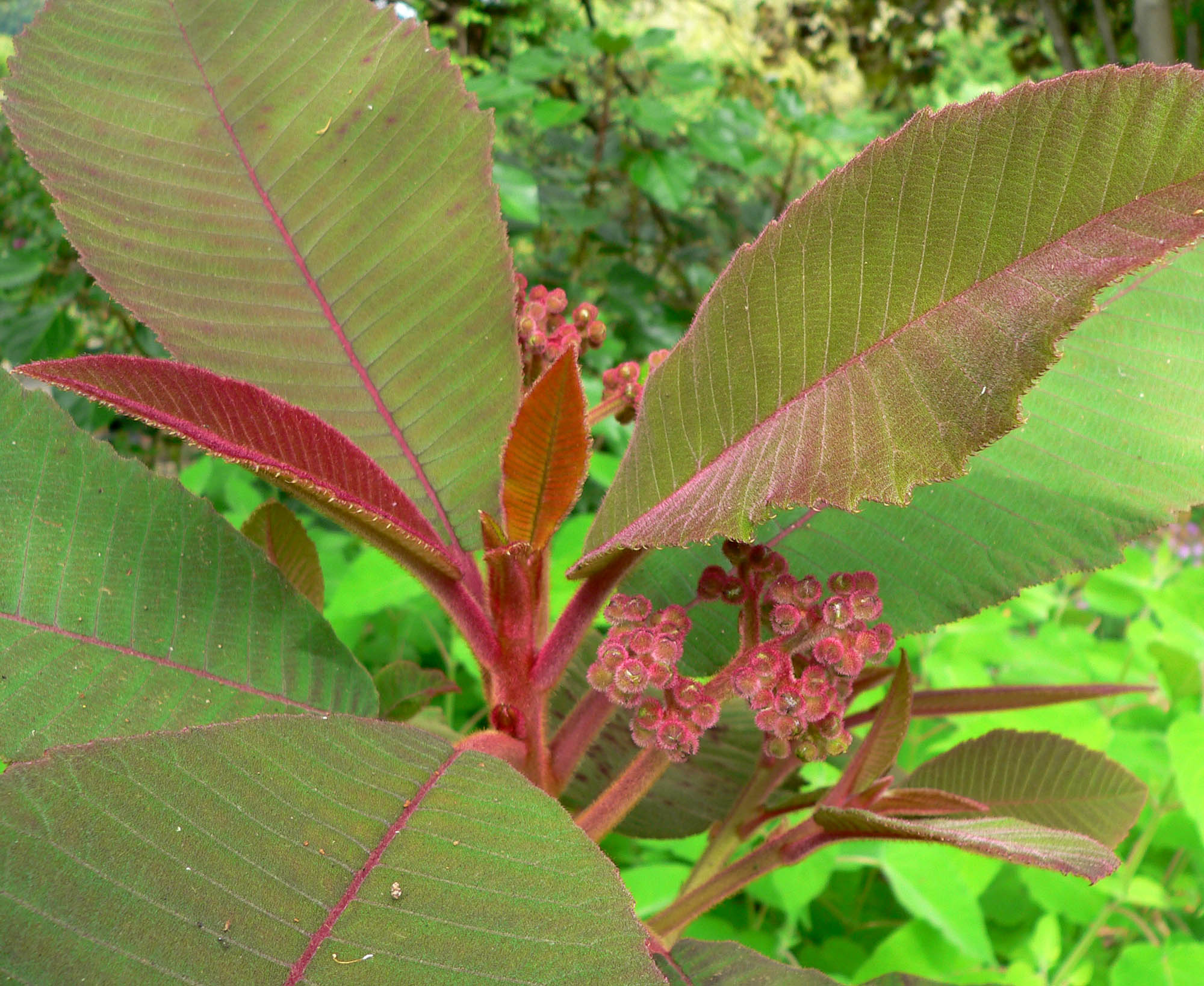 Photo of Saurauia madrensis at the University of California Botanical Garden